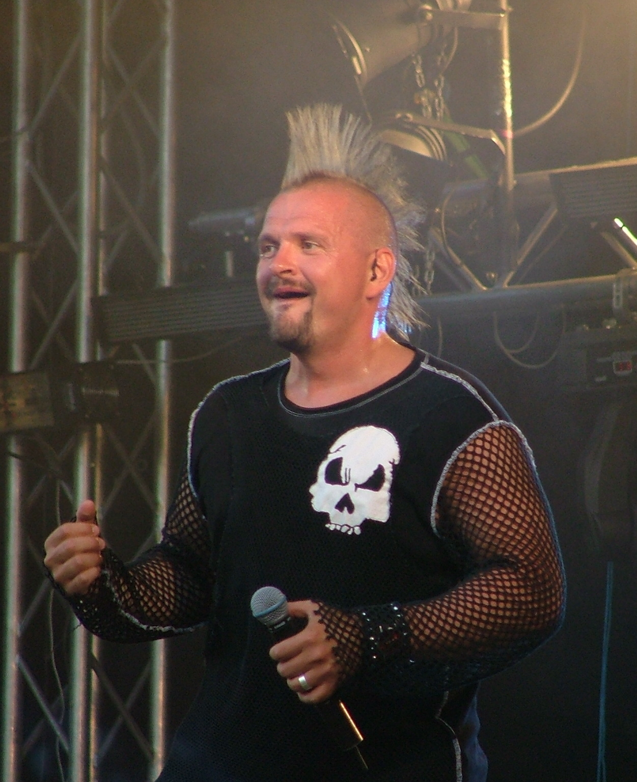 Singer Vesa "Vesku" Jokinen of Finnish punkrock-band Klamydia in Kuopio at Rockcock-musicfestival